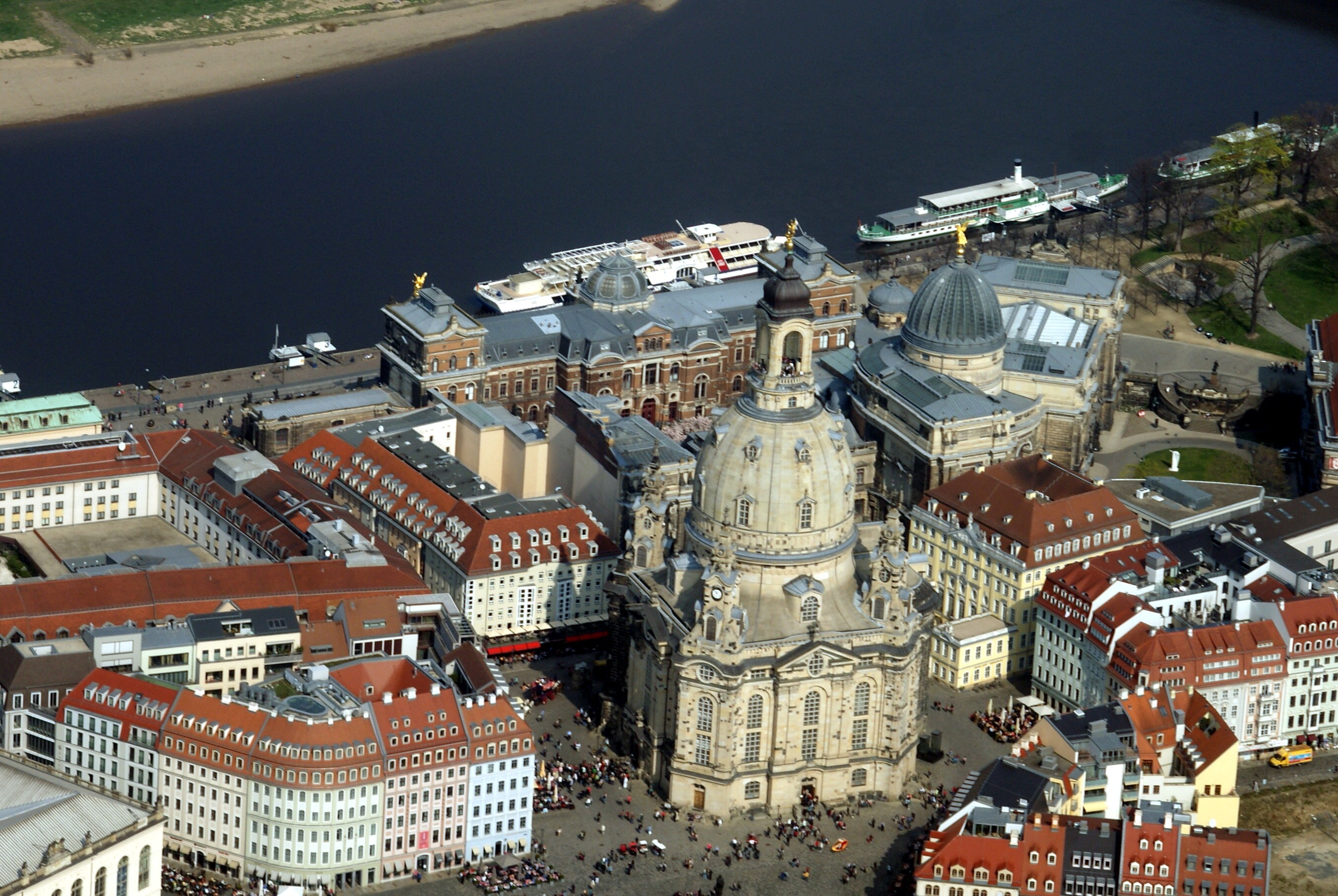 Aerial Image: Dresden Frauenkirche from Southwest